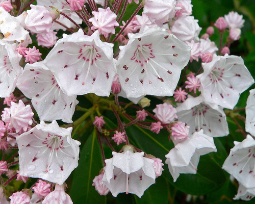 Kalmia latifolia in North Carolina